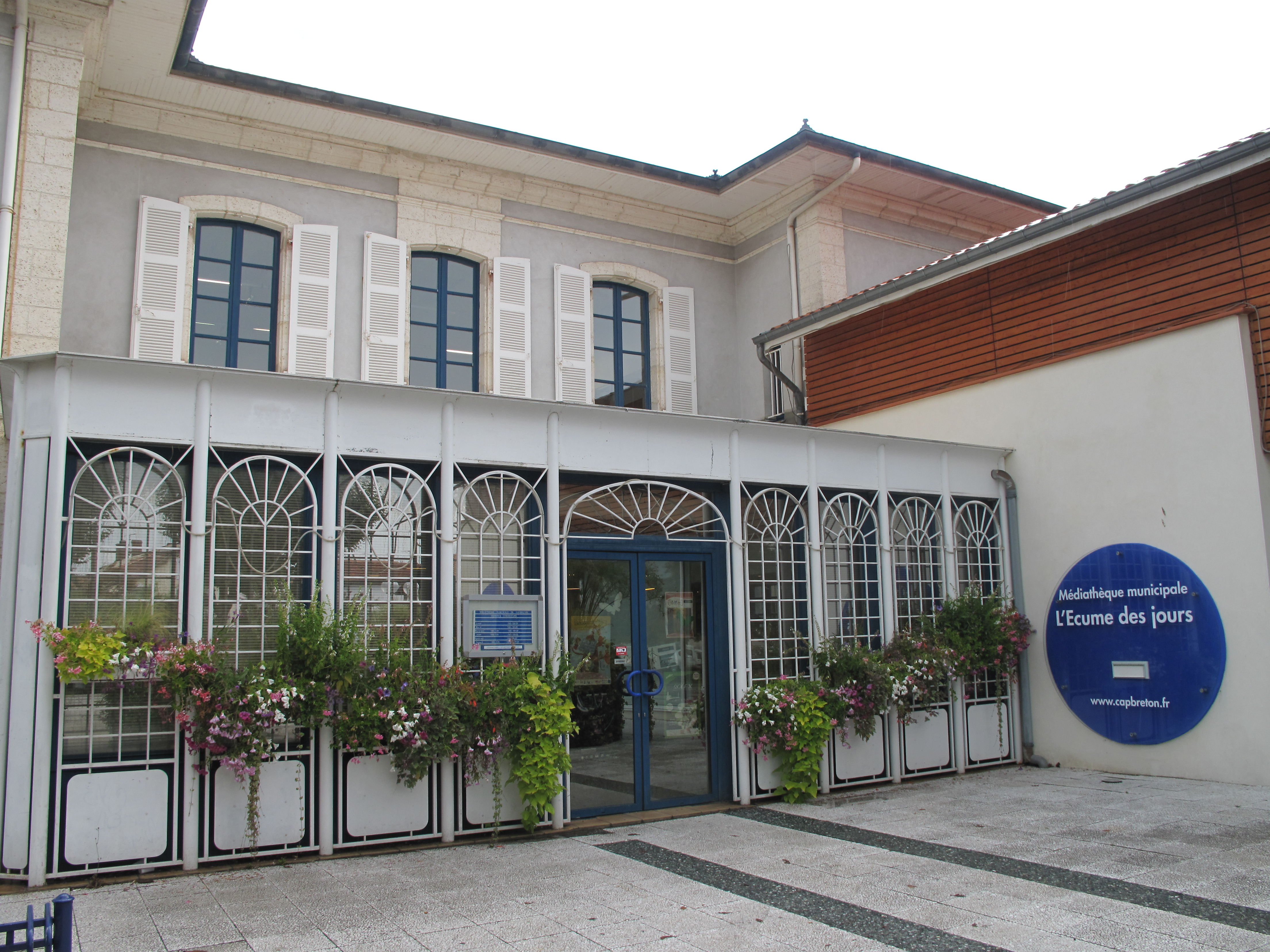 The library of Capbreton (Landes, France)